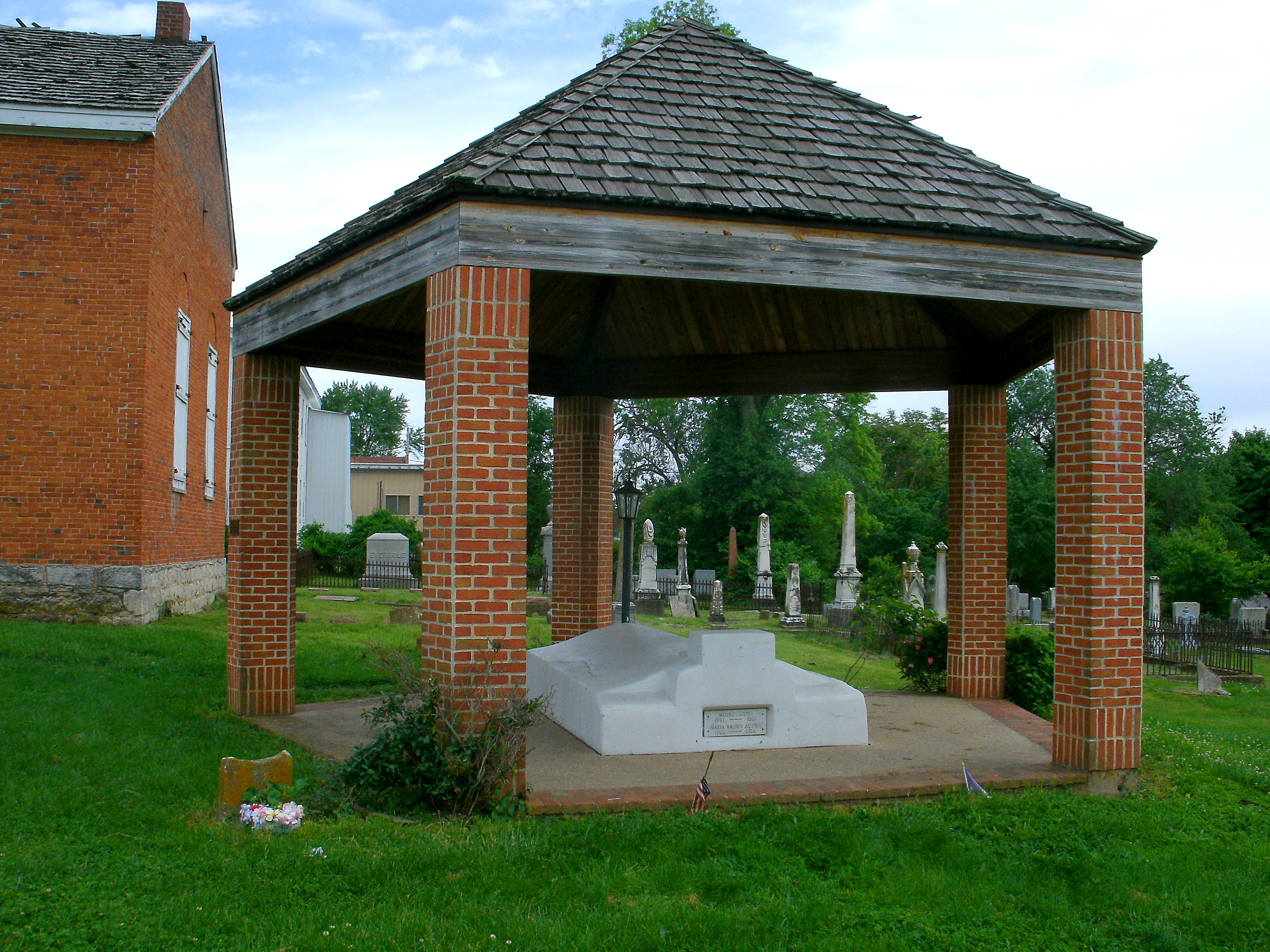 The tomb of Moses Austin (1761-1821) and Maria Brown Austin (1768-1824) in Potosi, Missouri. The tomb is on the grounds of the Presbyterian church built in 1832.